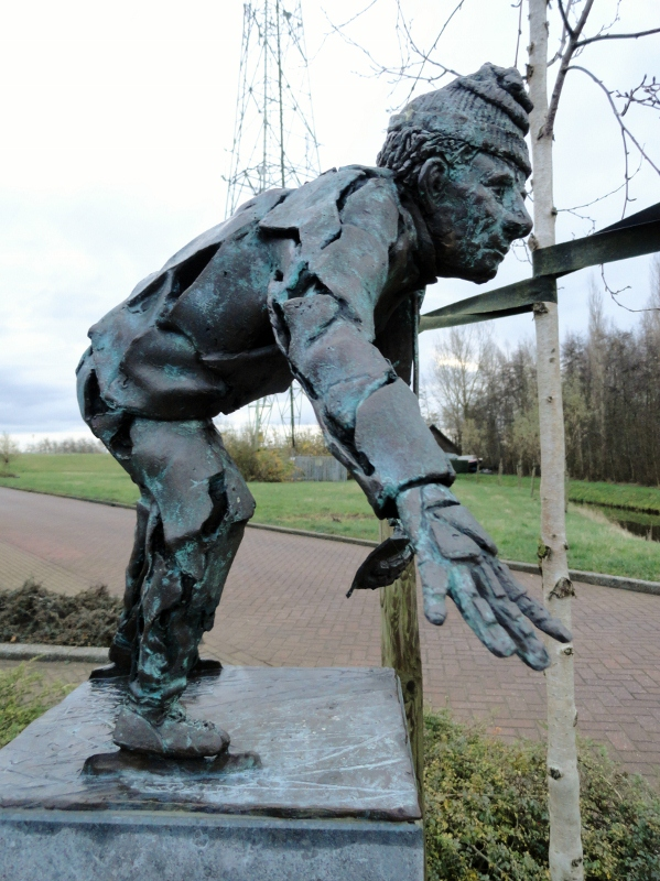 Photo of sculpture of speed skater Egbert van 't Oever